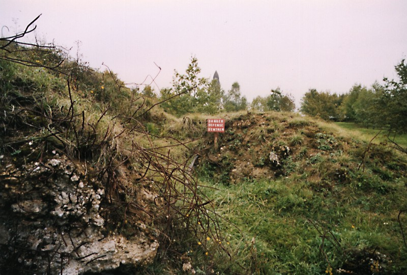 Former battlefield at Fort Thiaumont, in the background of the tip of Douaumont ossuary. The inscription on the plate reads: DANGER DEFENSE D'ENTRER (Danger, Access Forbidden).